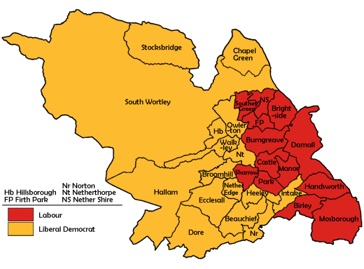 Ward map of Sheffield Council with political colouring for the 1998 election.